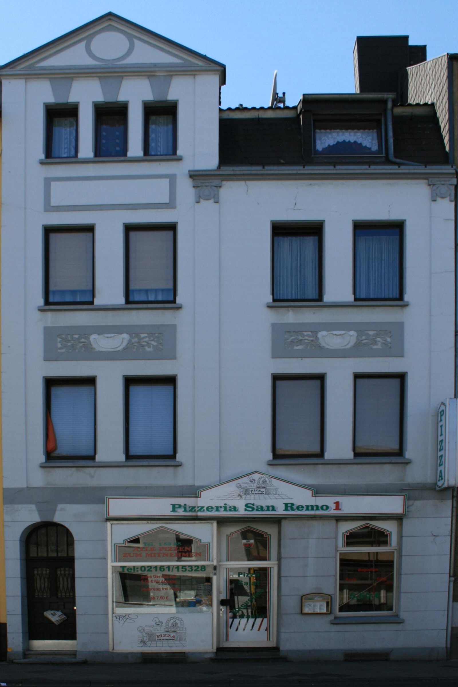 Cultural heritage monument No. E 010 in Mönchengladbach